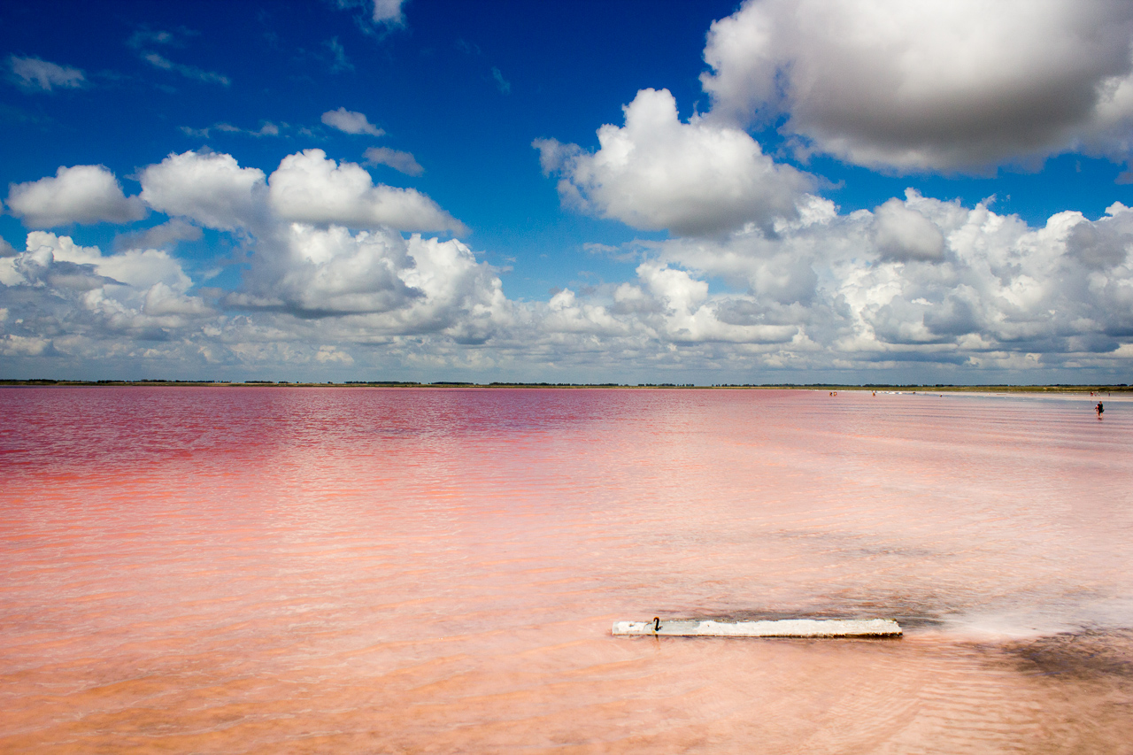 Burlinskoe lake